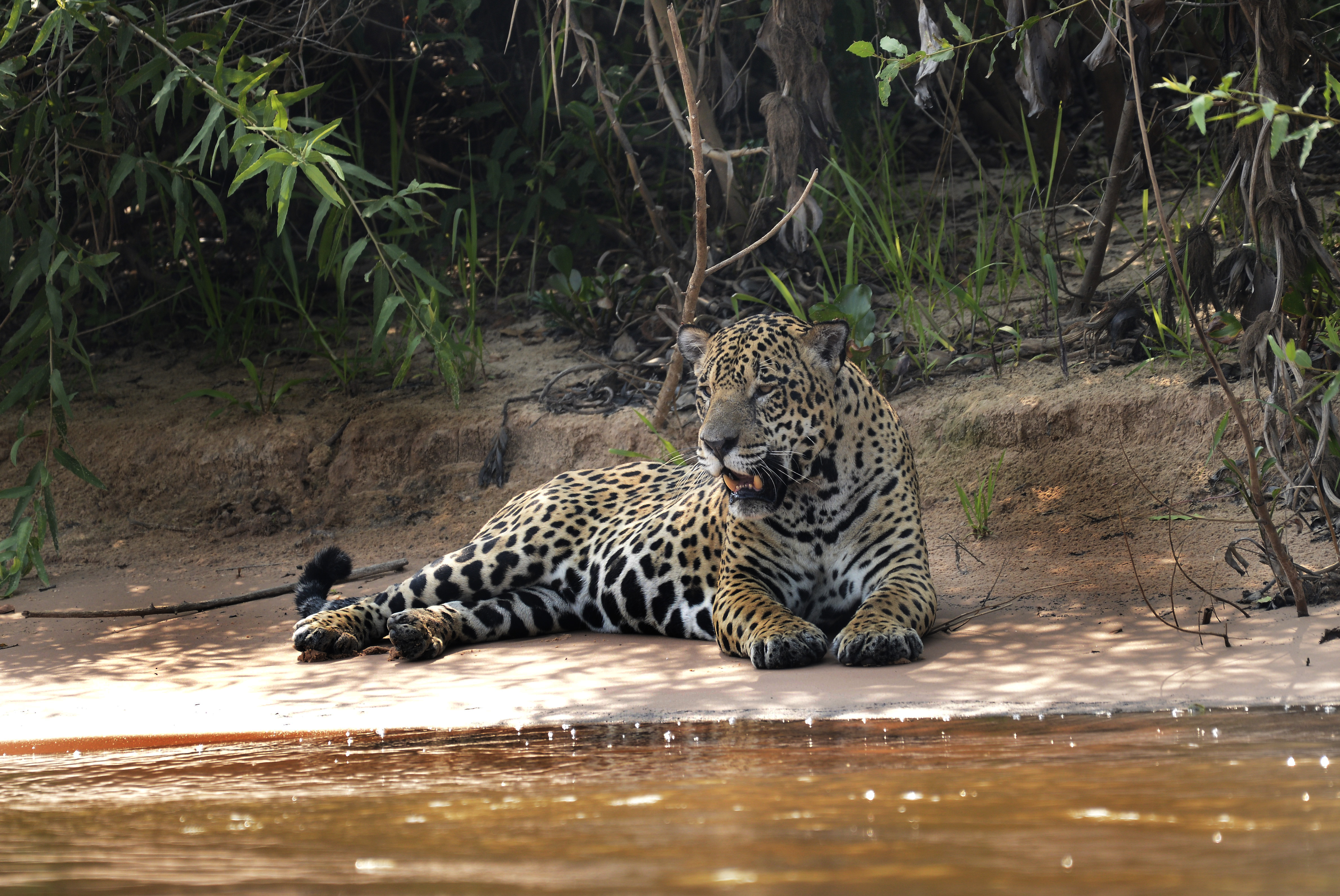 20151026 The jaguar male takes a rest (descansar) at the beach.Photo by: Jan Fleischmann This is an image of the Biosphere Reserve or a Geopark: Lake Vänern Archipelago